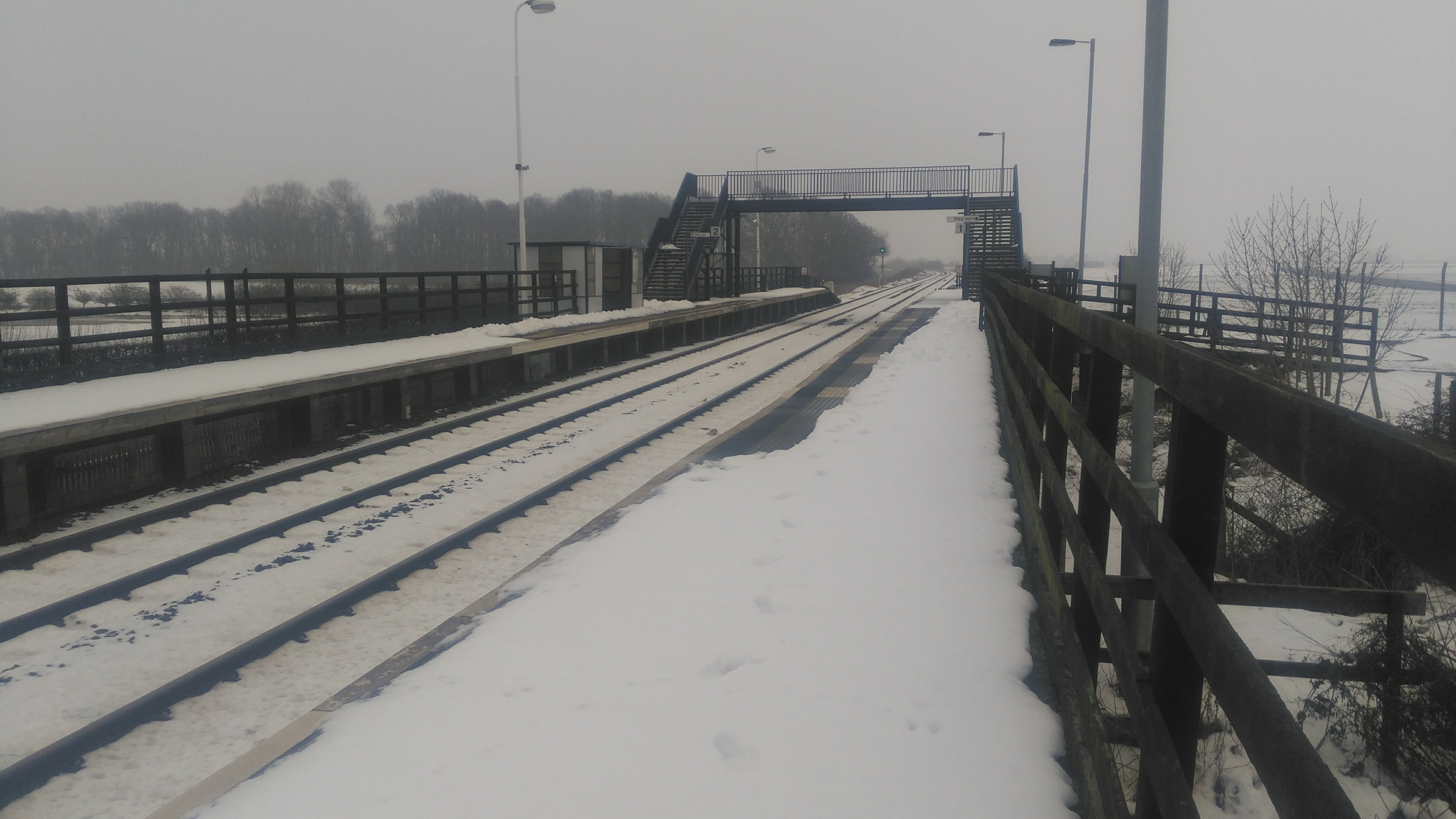 Teesside Airport station shown in the snow looking east towards Middlesbrough.